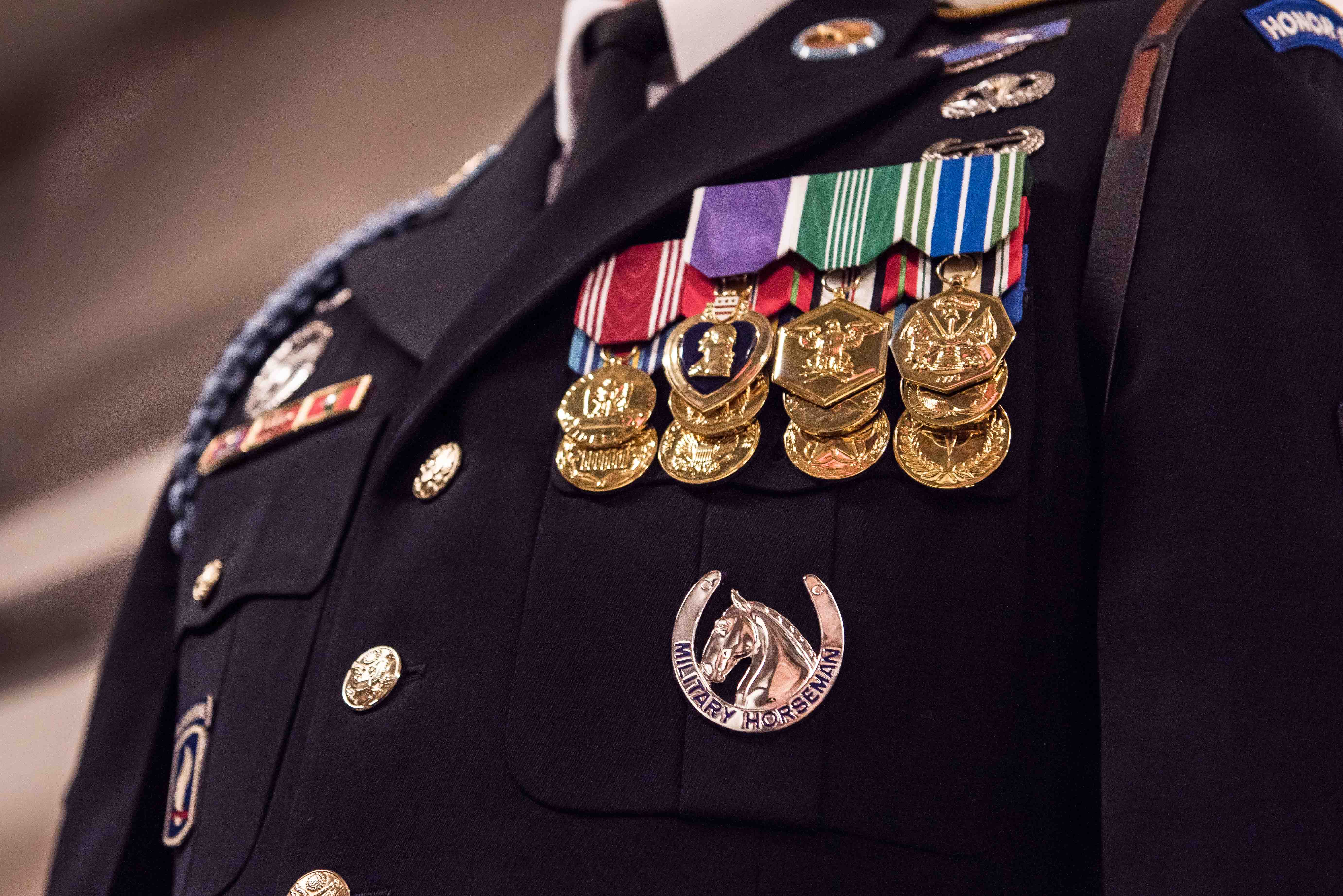 Awarding of the Military Horseman Identification Badge at a special ceremony on Friday 29 September 2017